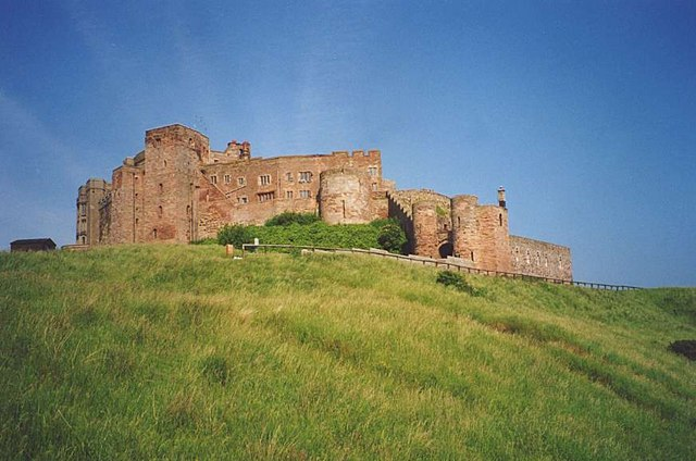 Bamburgh Castle